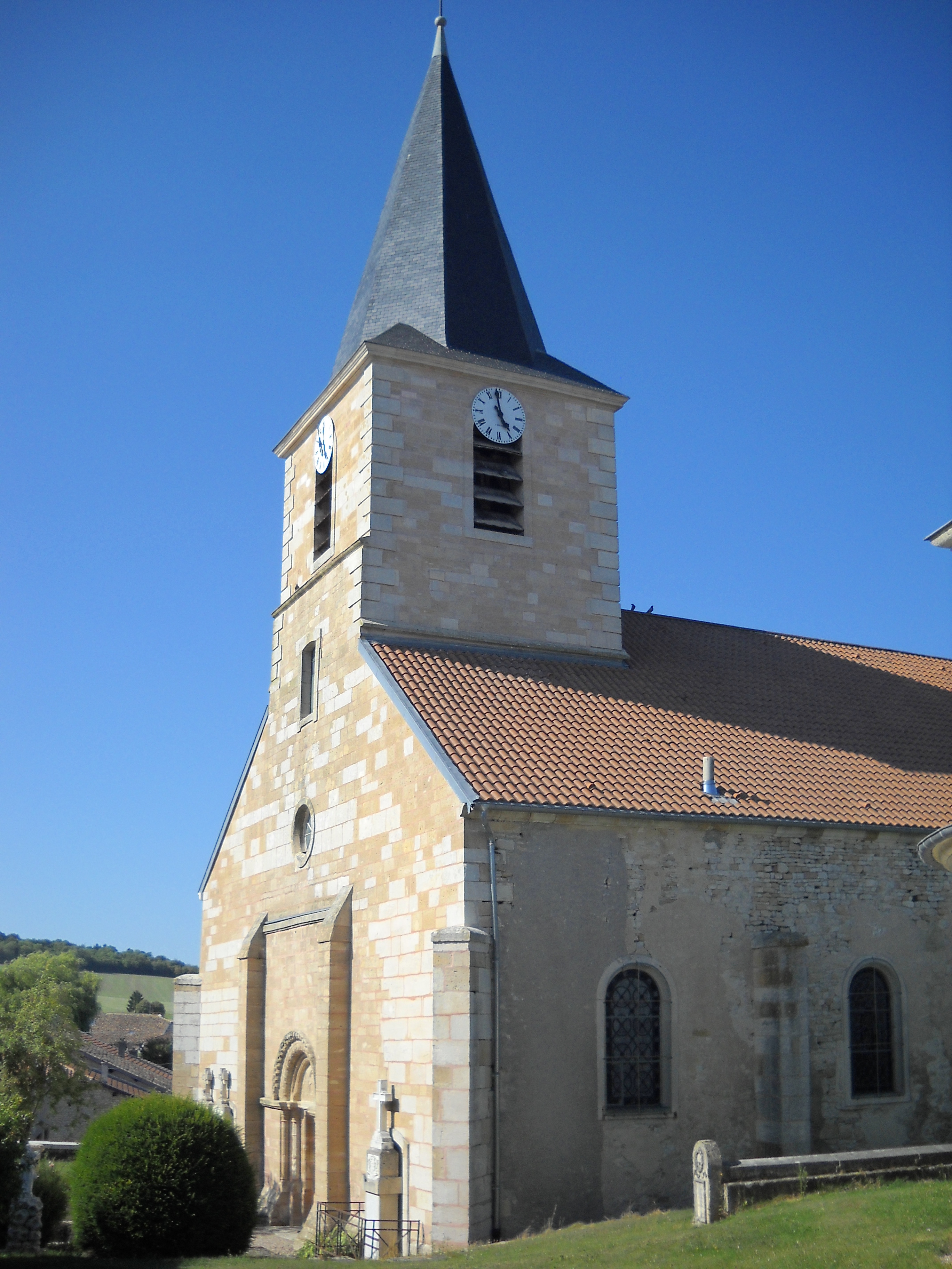 Church of Mauvages